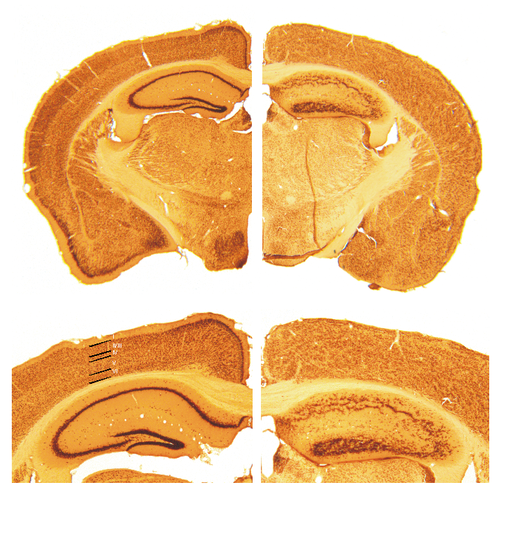 Comparative brain slices of normal (on the left) and Reeler mutant (on the right) mice.